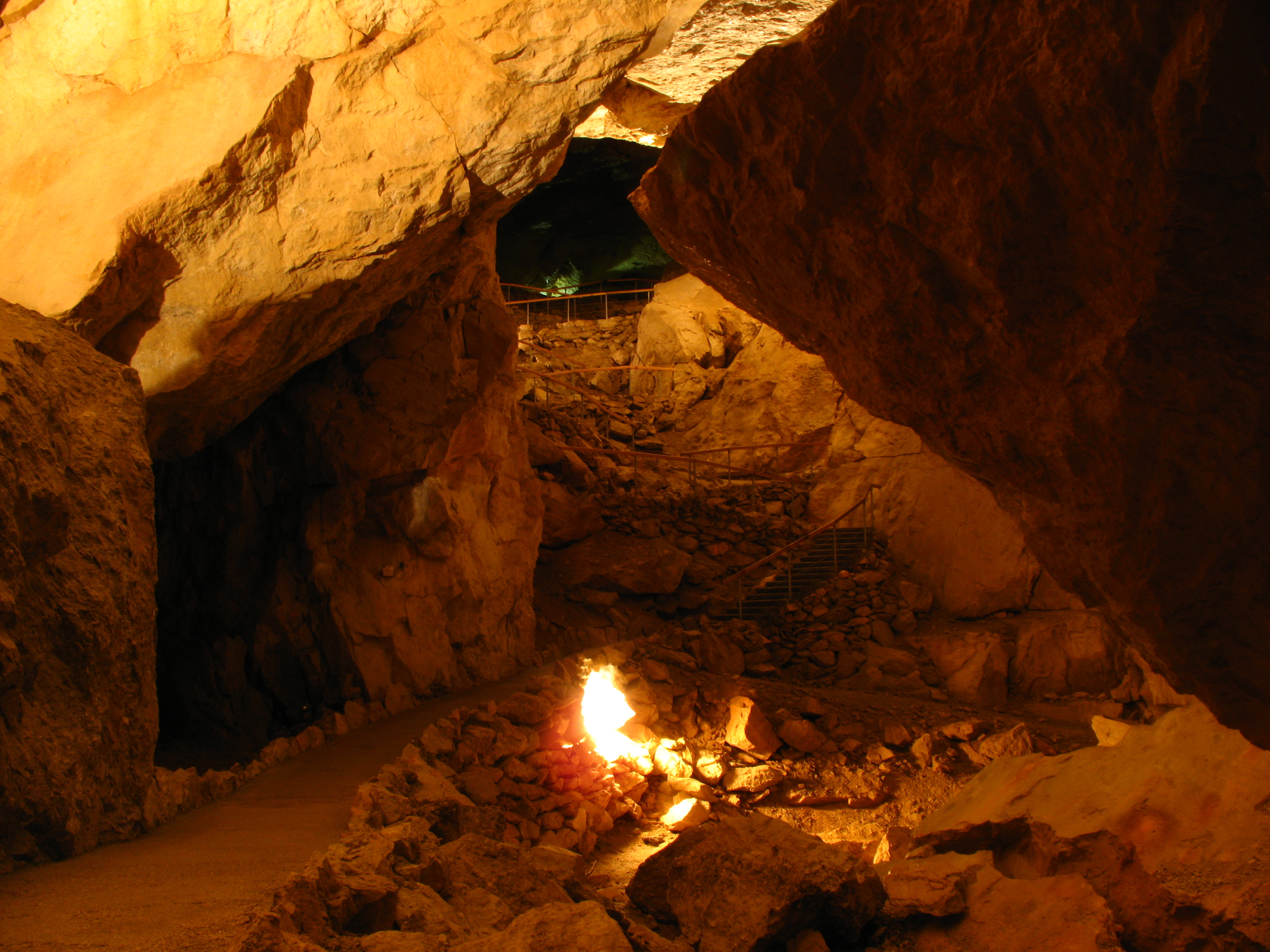 Giant Ice Caves, Dachstein, Austria